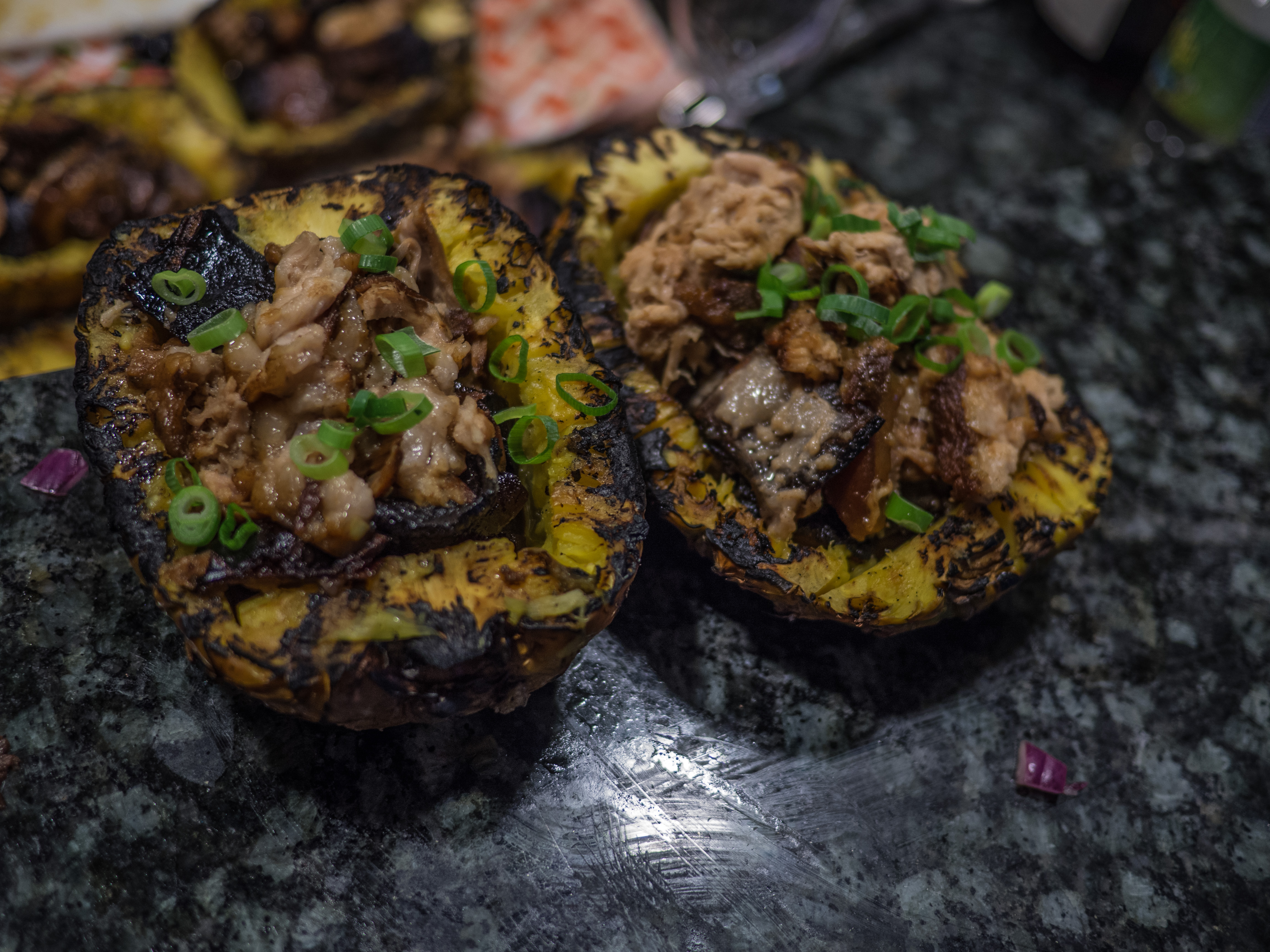 delicious humba aka pork belly by @SALOseries aka yana gilbuena #saloscenes thanks again chef!